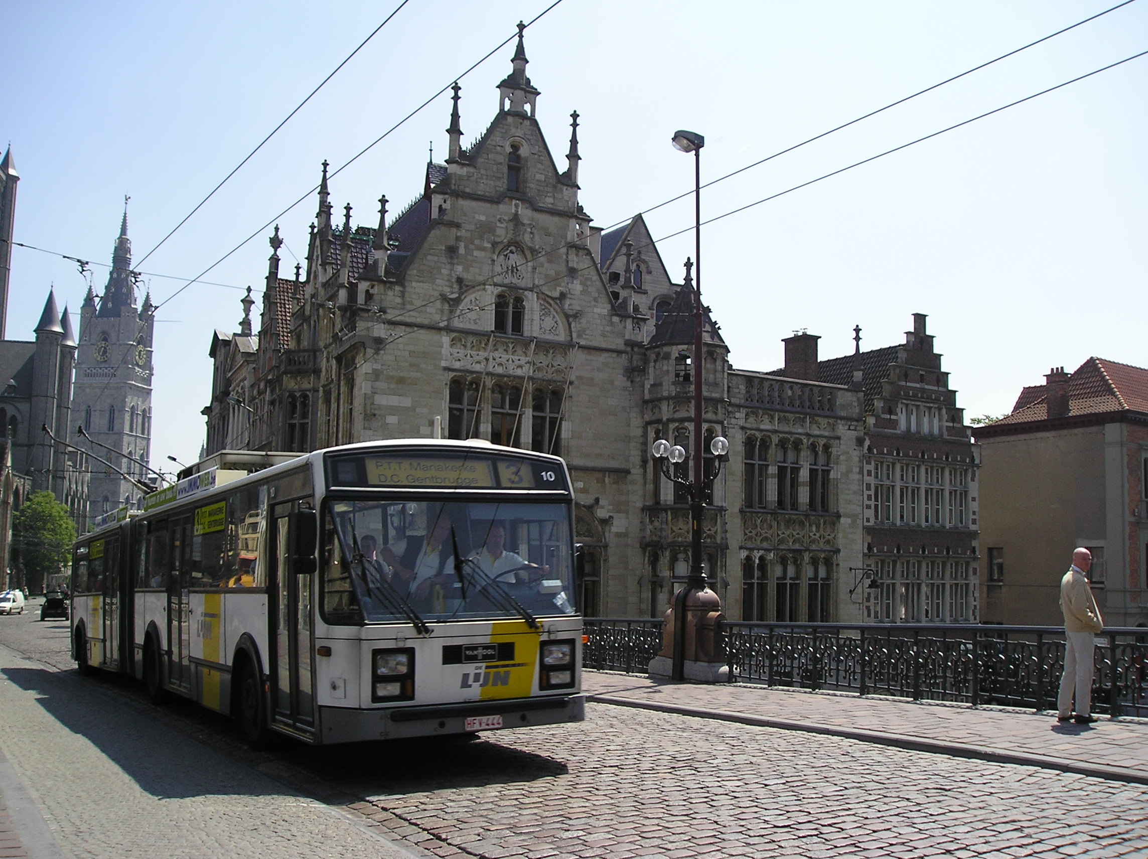 Trolleybus on the St. Michael bridge in Ghent.